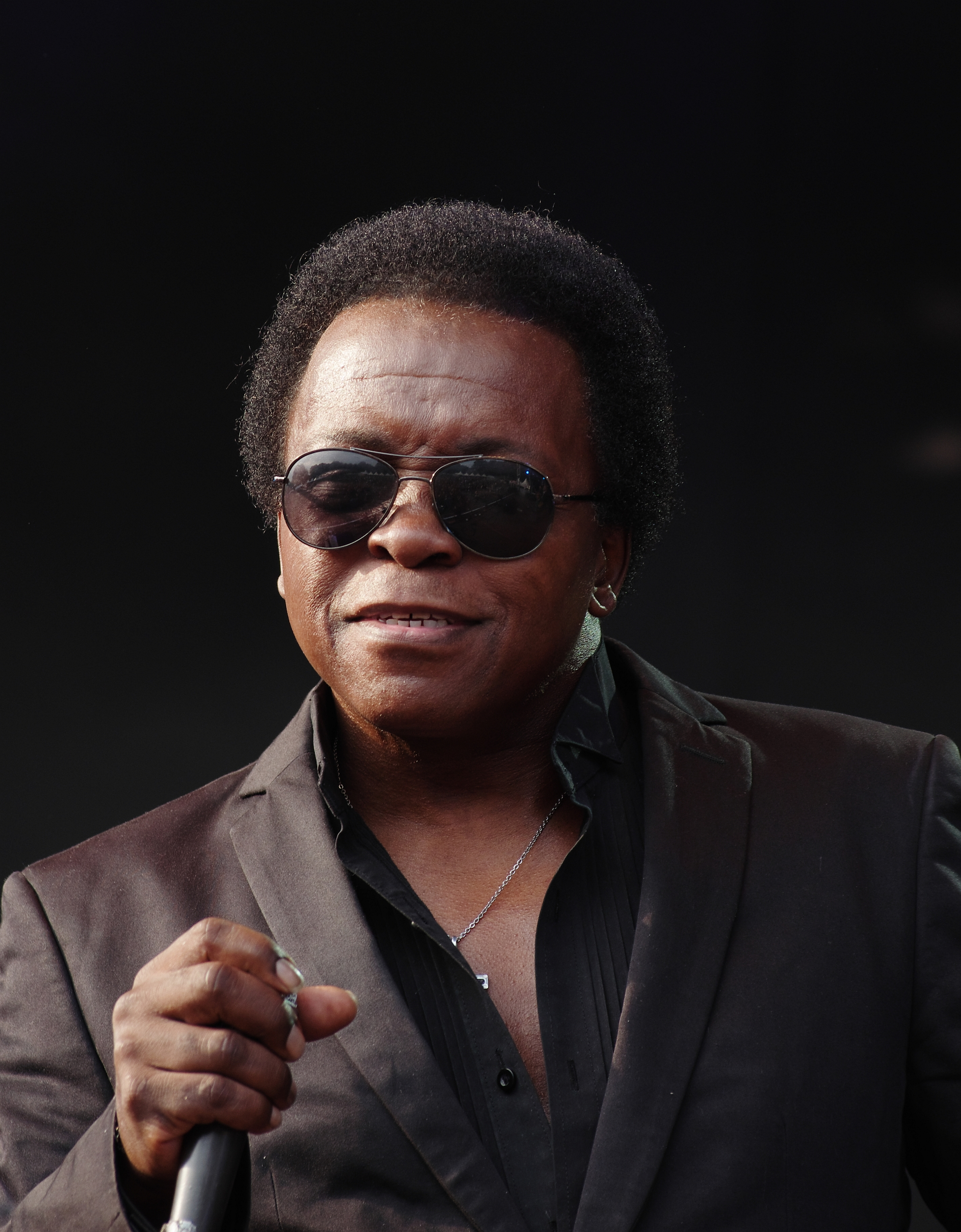 Lee Fields & The Expressions at Haldern Pop 2013